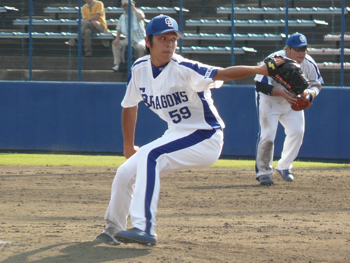 CD-Kento-Yachi20110908